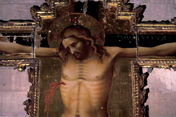 Lorenzo_Veneziano_1356-8_Crucifix,_detail,_San_Zeno,__Verona